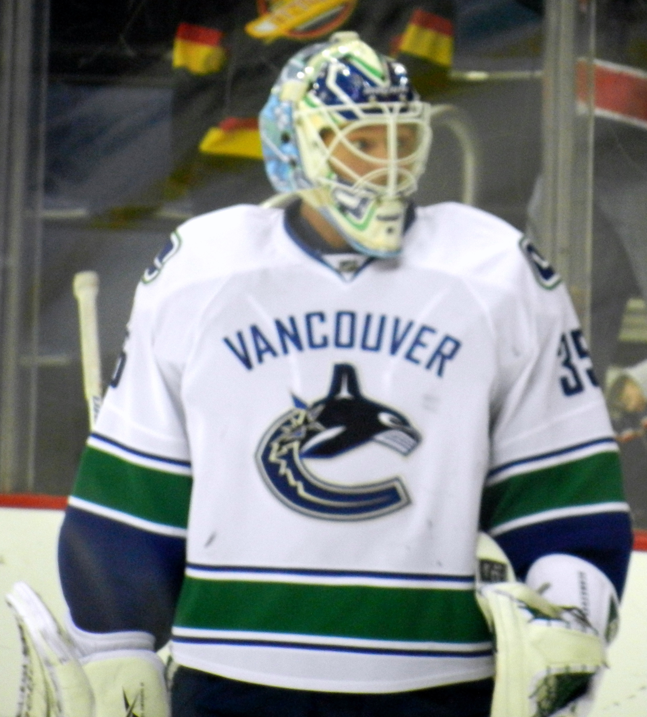 Cory Schneider playing for the Vancouver Canucks during warm-up of a game vs. the Columbus Blue Jackets in the 2011-12 season. Schneider served as the back-up during the game. Vancouver lost the game 2-1 in a shoot-out